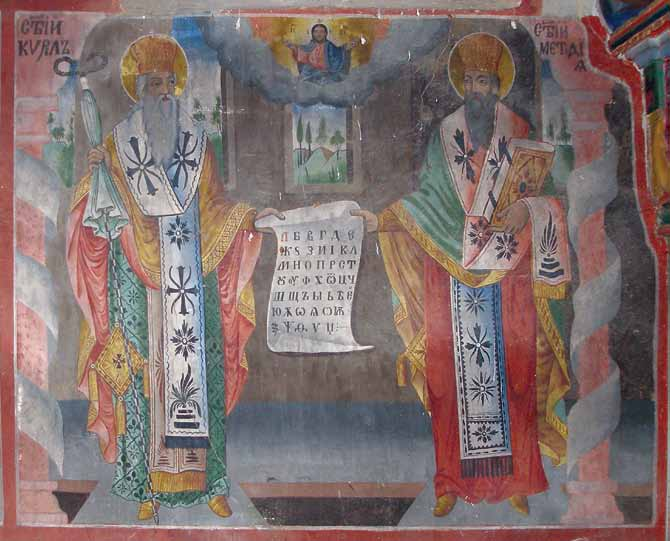 Saint Athanasius Church in Belyovo Saints Cyril and Methodius Fresco